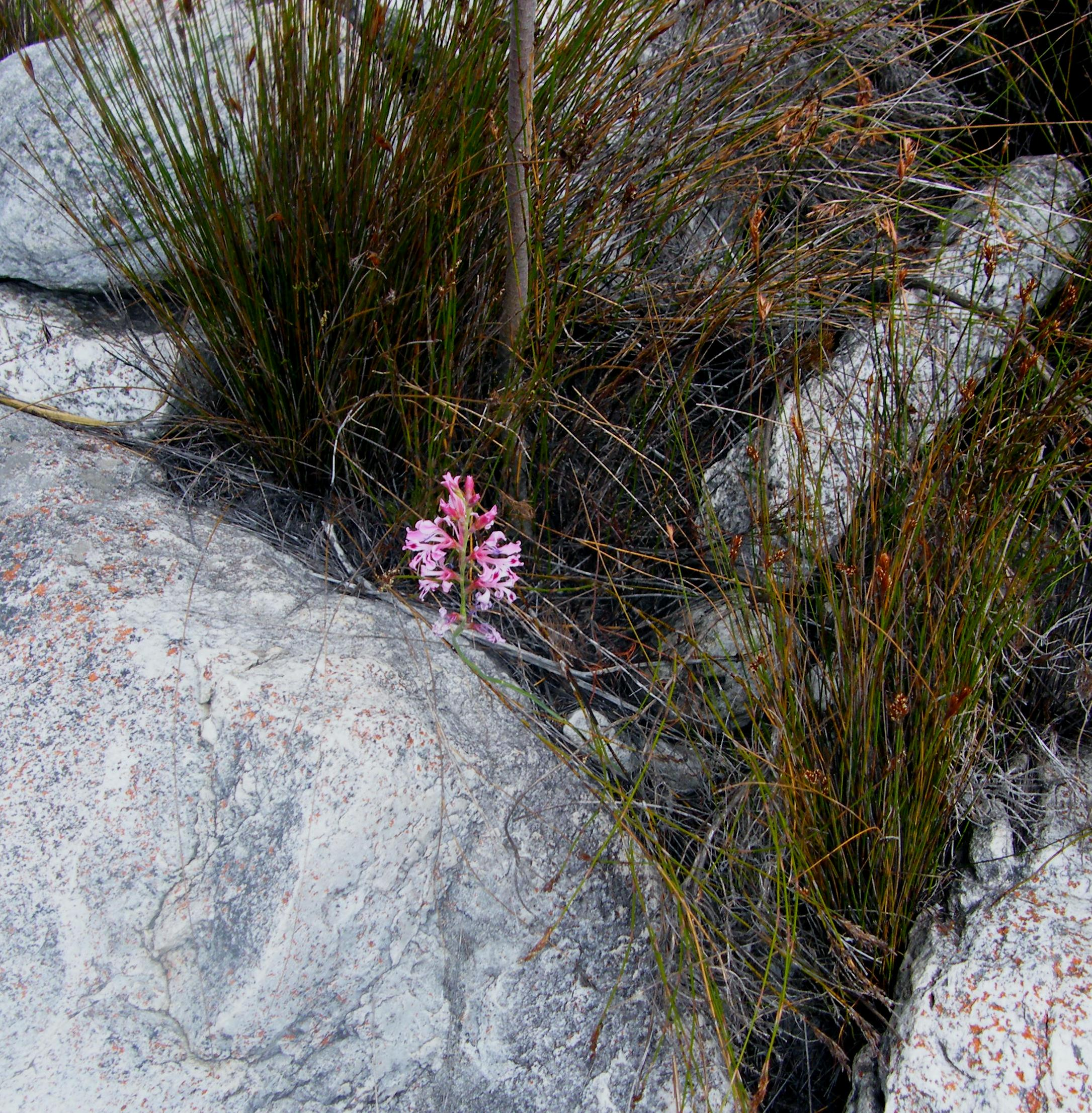 Tritoniopsis